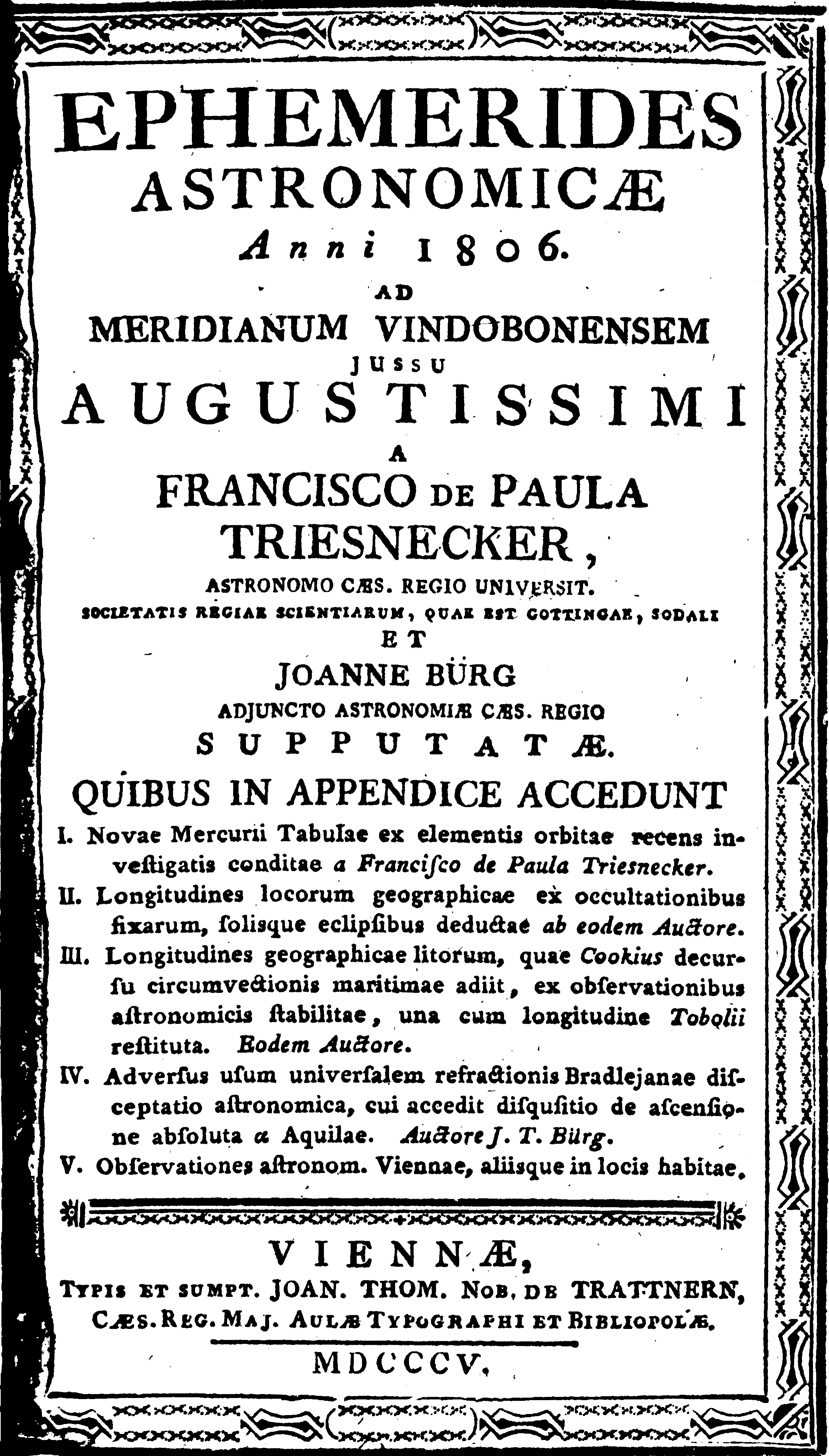 Title page of Ephemerides Astronomicae Anni 1806 ad Meridianum Vindobonensem (for the year 1806 at the meridian of Vienna). Published 1805.